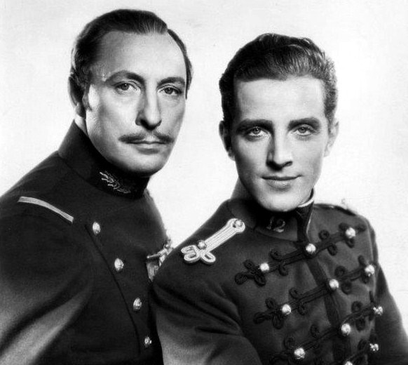 Lionel Atwill (left) & Phillips Holmes in Nana - publicity still (cropped)